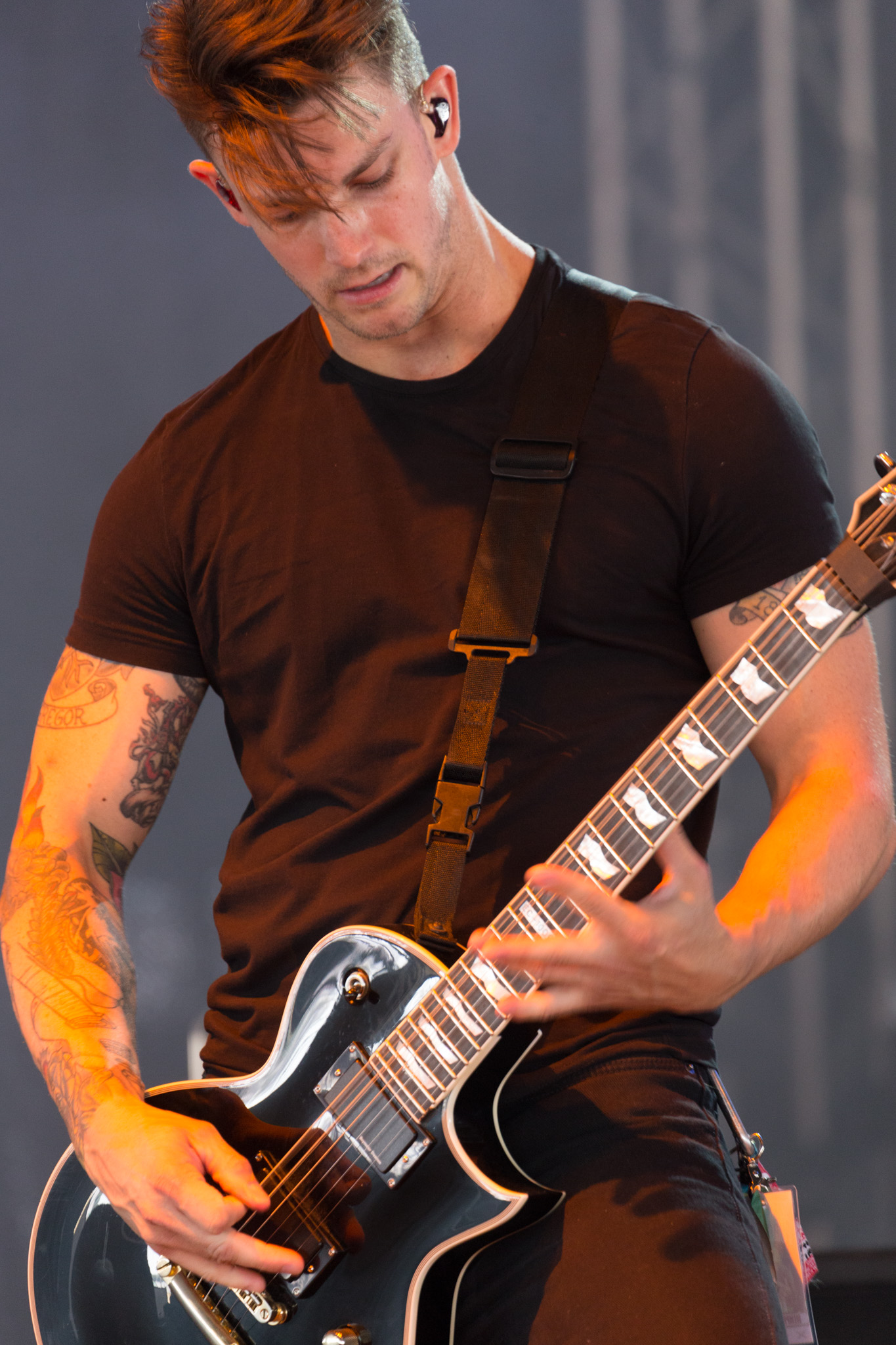 Memphis May Fire performing at the With Full Force Festival, July 2014